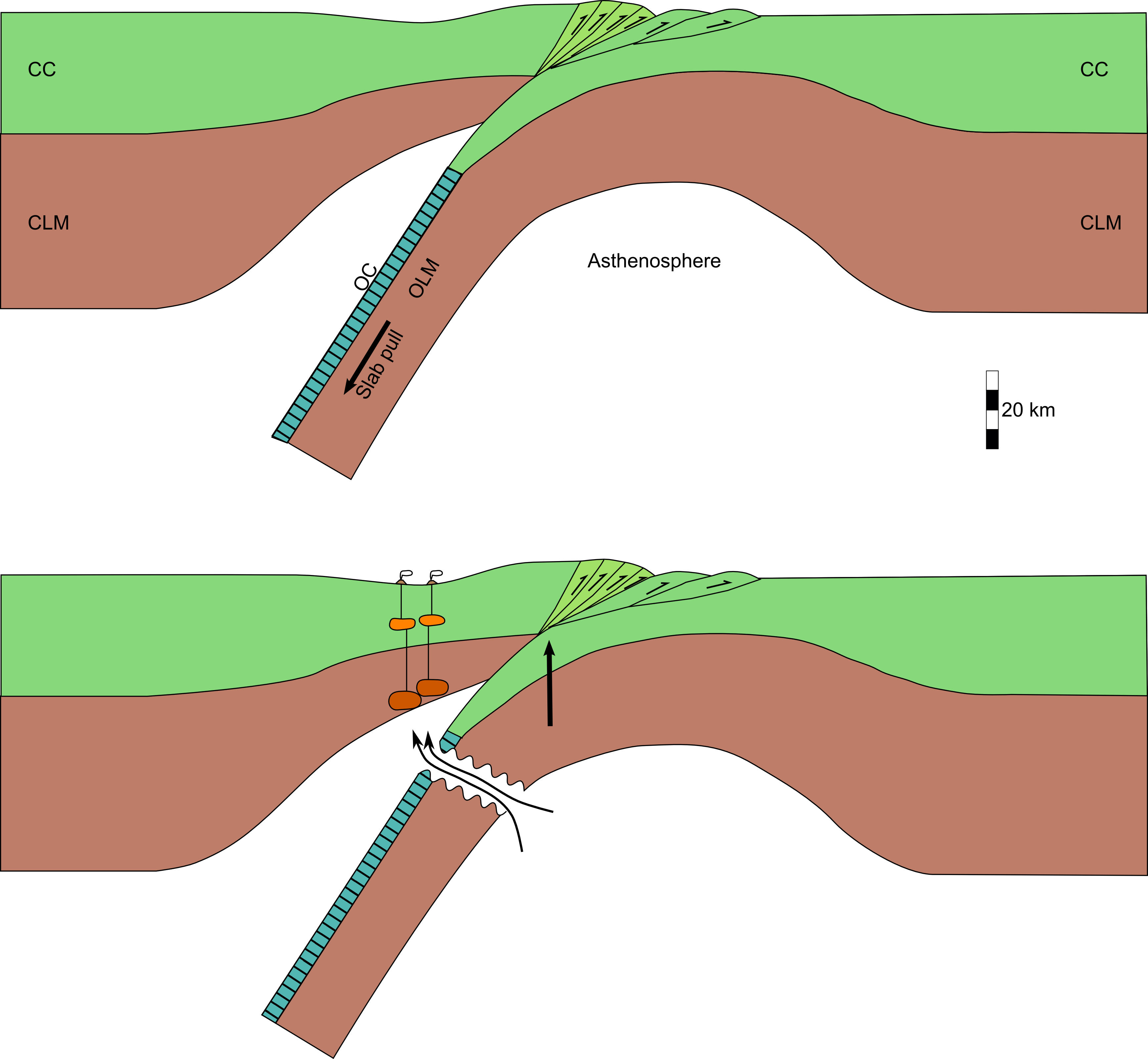 Schematic diagram of the process of slab detachment (break-off) derived from many published diagrams. Abbreviations: OC=oceanic crust, OLM=oceanic lithospheric mantle, CC=continental crust, CLM=continental lithospheric mantle.